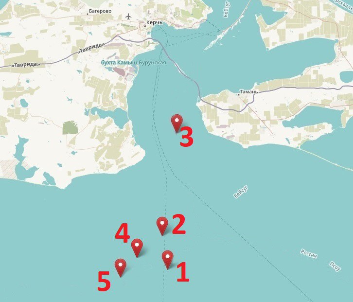 Kerch Strait incident map. Based on Bellingcat and OpenStreetMap. Own work. 1 - According to FSB Ukrainian ships allegedly cross into Russian territory (07:10, 44.8666667, 36.5166667) 2 - First ramming - SBU intercept tape (07:35, 44.9333333, 36.5022222) 3 - Aviona bulk carrier position at 09:30 UTC, a few hundred meters from the Ukrainian boat (45.13803, 36.54362) 4 - Warning shots fired at the group of ships (20:45, 44.8911667, 36.4293333) 5 - Mayday Call - Liga Novosti audio tape (44.85, 36.3844444, a little southerly where the shots were fired at Berdyansk ship at 20:55)